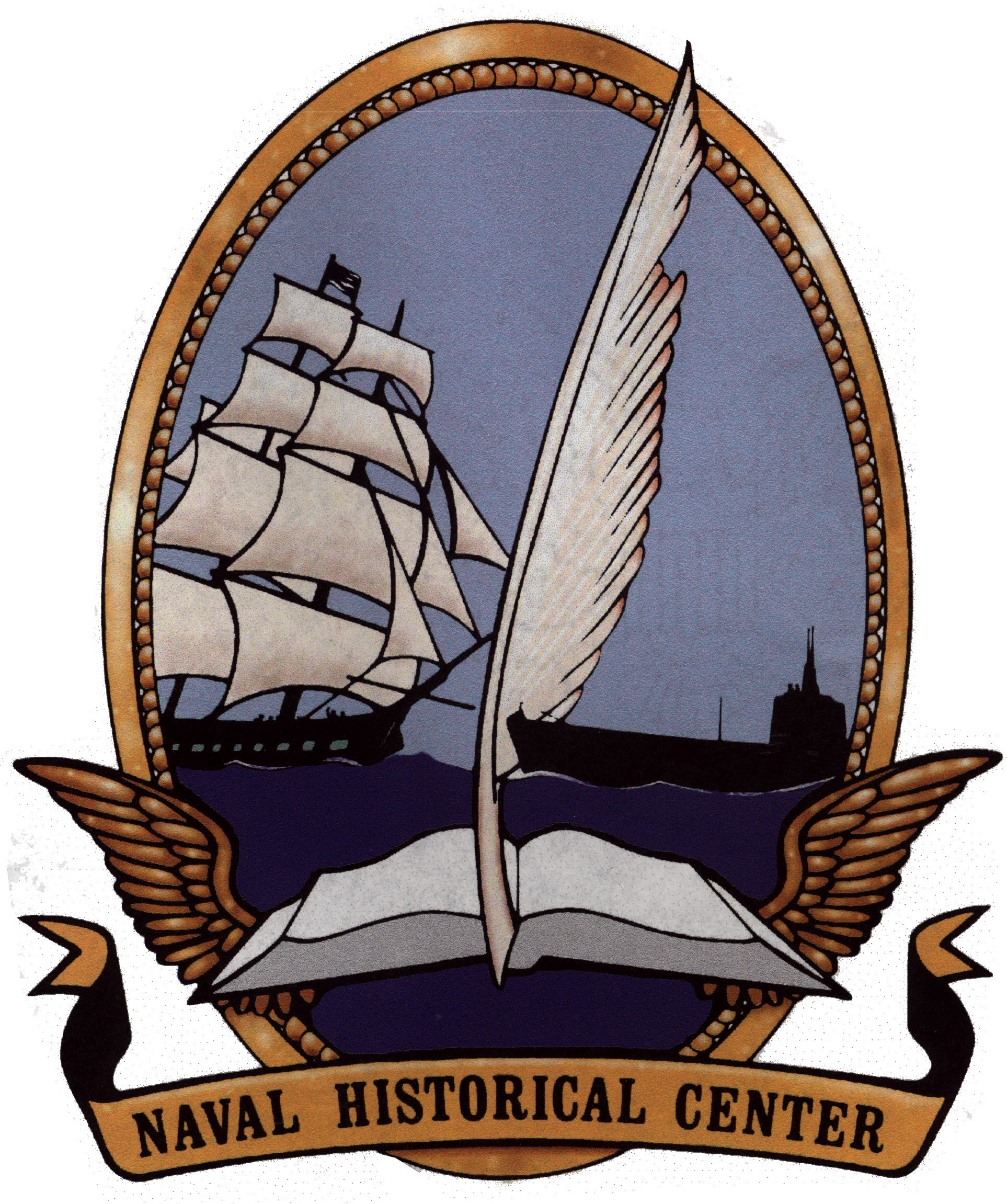 U.S. Navy's Naval Historical Center logo.